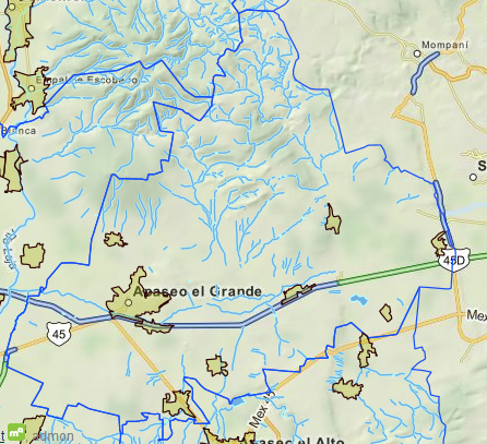 Corrientes de Agua